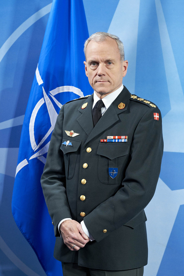 Danish General Knud Bartels assuming his position as Chairman of NATO 's Military Committee